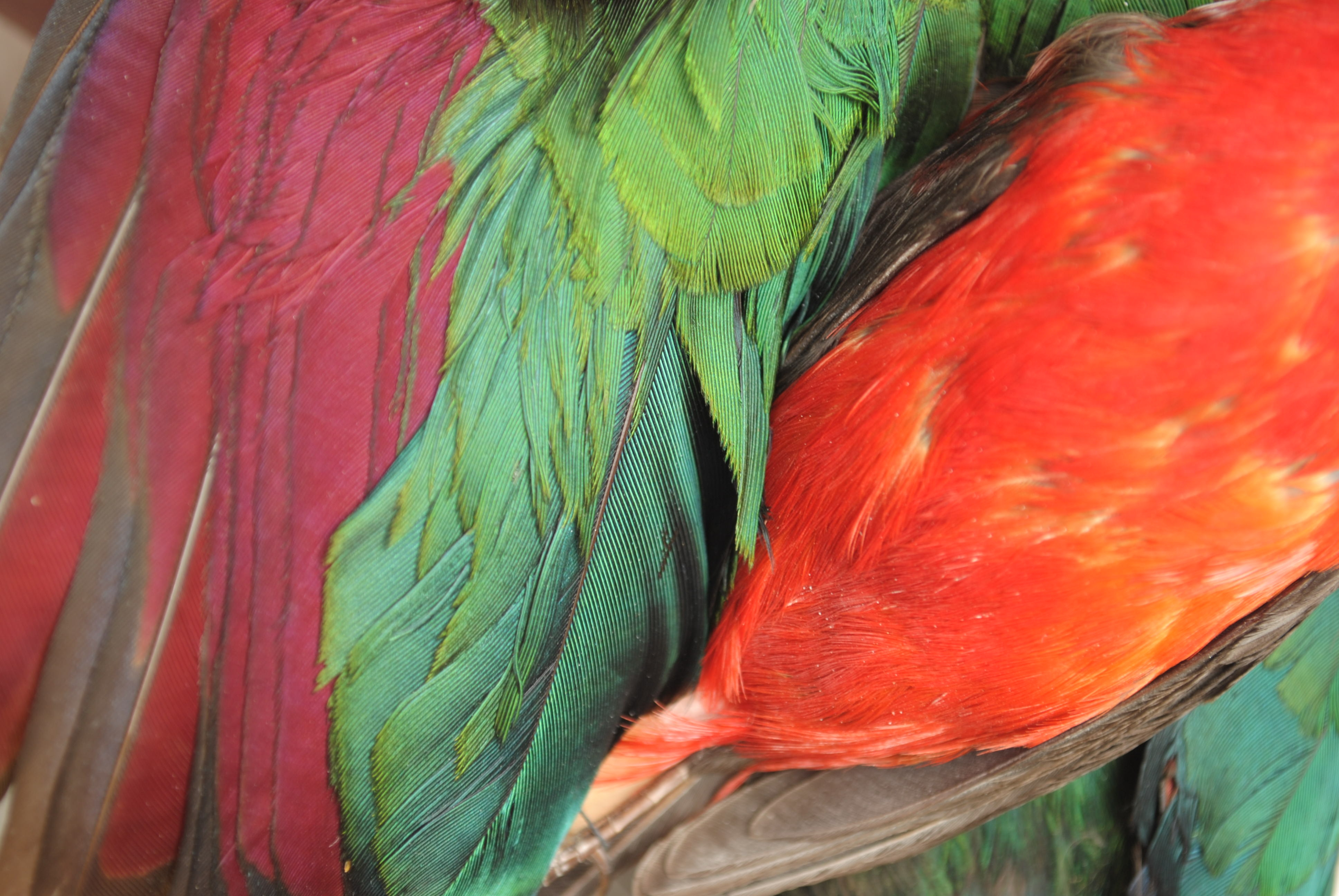 Avian feather pigments. Left: turacin, purple Center: turacoverdin, green (with some blue iridescence on the lower end) Right: carotenoids, scarlet (with blackish melanin on the wings) Birds are ZFMK specimens of Tauraco bannermani (ZFMK 68.77, left) and Ramphocelus bresilius (ZFMK Müller56, right).